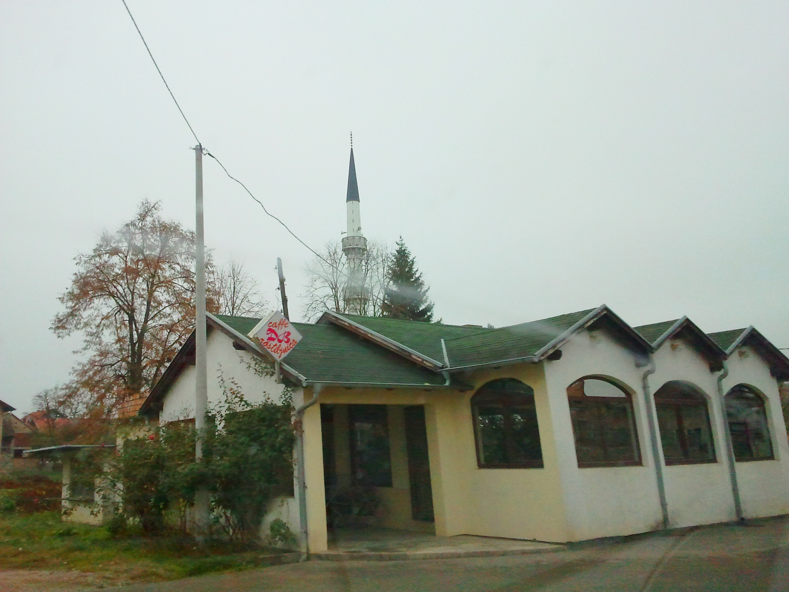 Village Orahova, Republika Srpska.